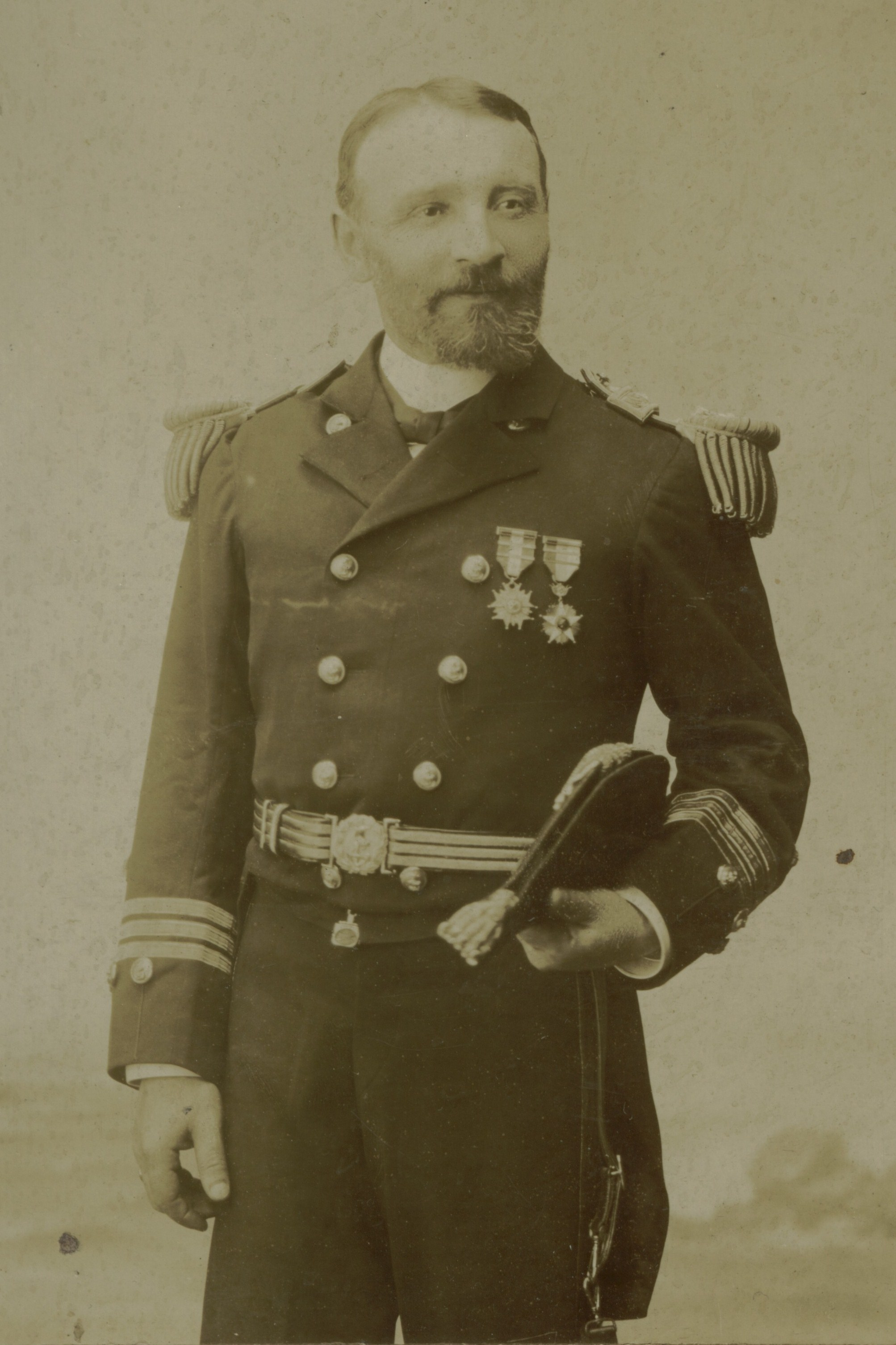 Lindor Pérez Gazitúa, Admiral of the Chilean Navy. (this picture was taken about 1890).